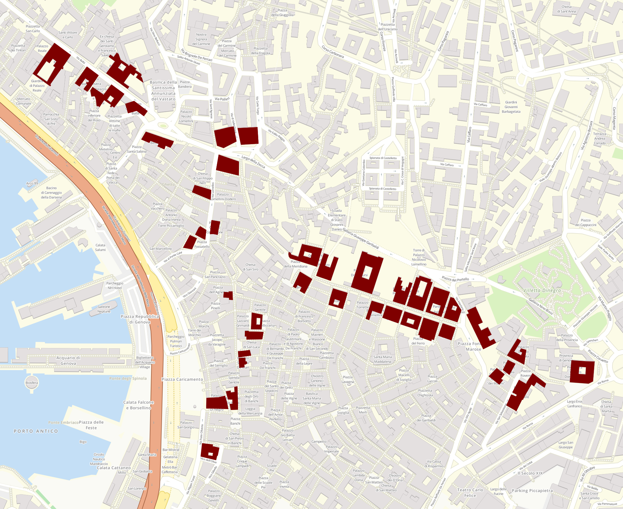 Palazzi dei Rolli, Unesco World Heritage, highlighted on a map rendered from OpenStreetMap data